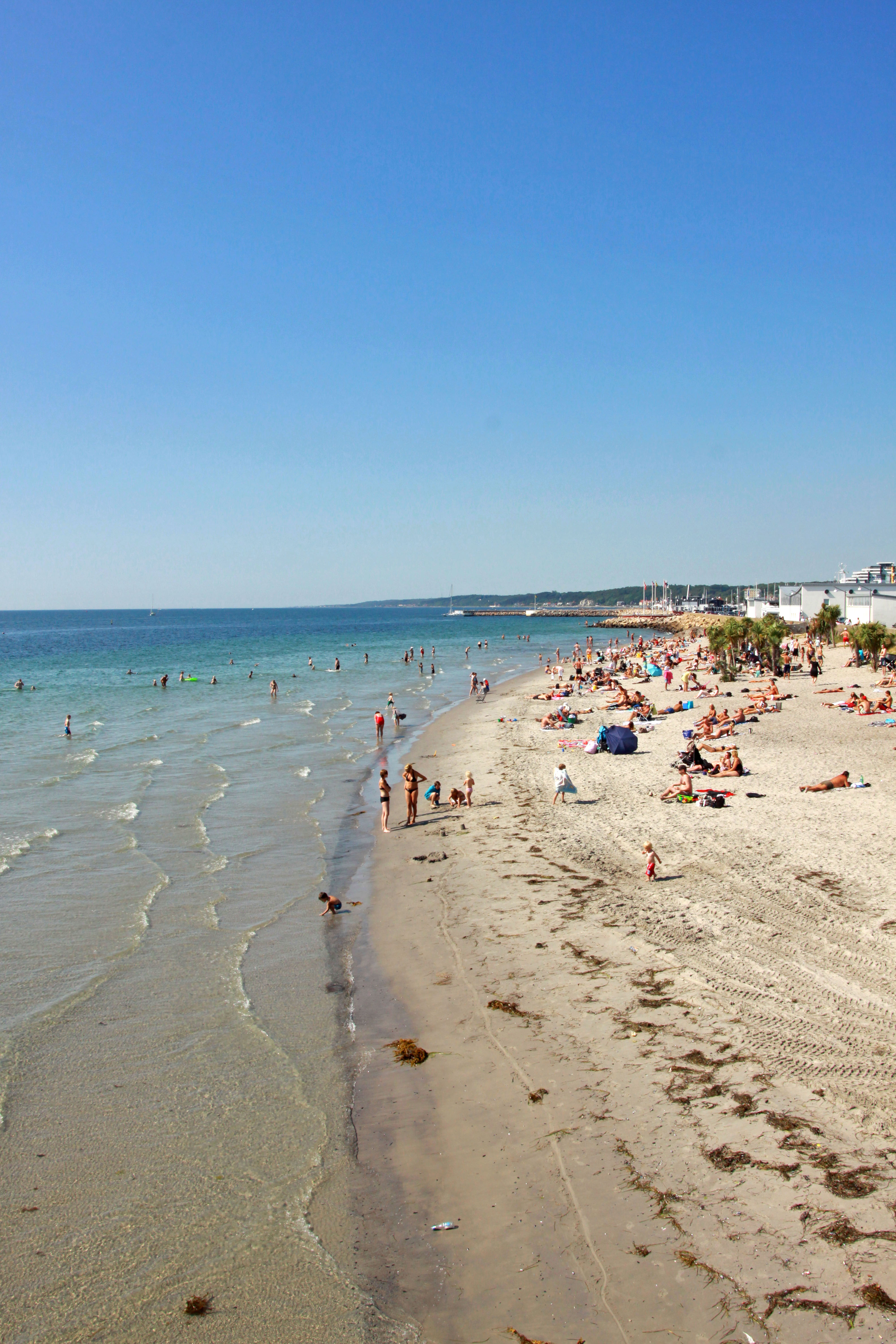 Helsingborg. Tropical Beach.